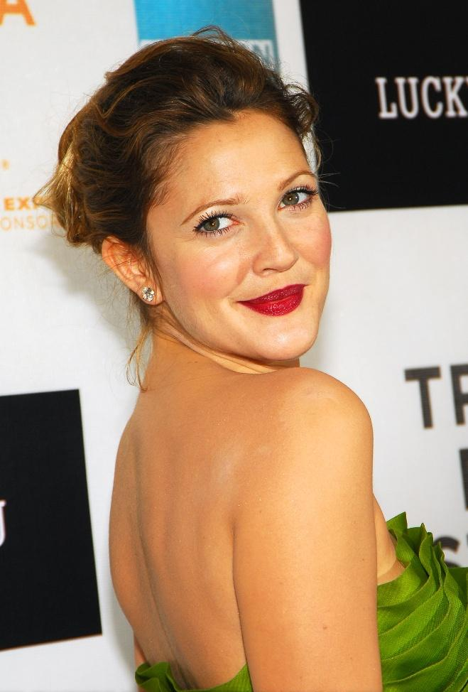 Premiere of Lucky You